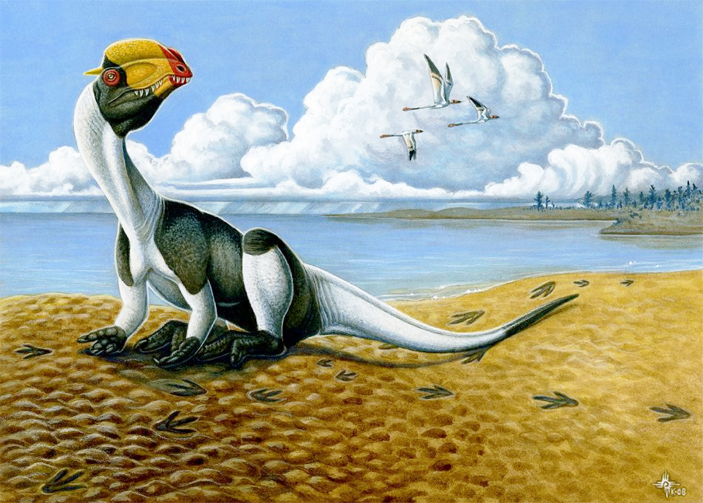 Restoration of Early Jurassic environment preserved at the SGDS, with the theropod Dilophosaurus wetherilli in bird-like resting pose, demonstrating the manufacture of SGDS.18.T1 resting trace.